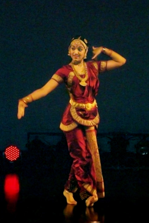 classical indian dance by oliviat